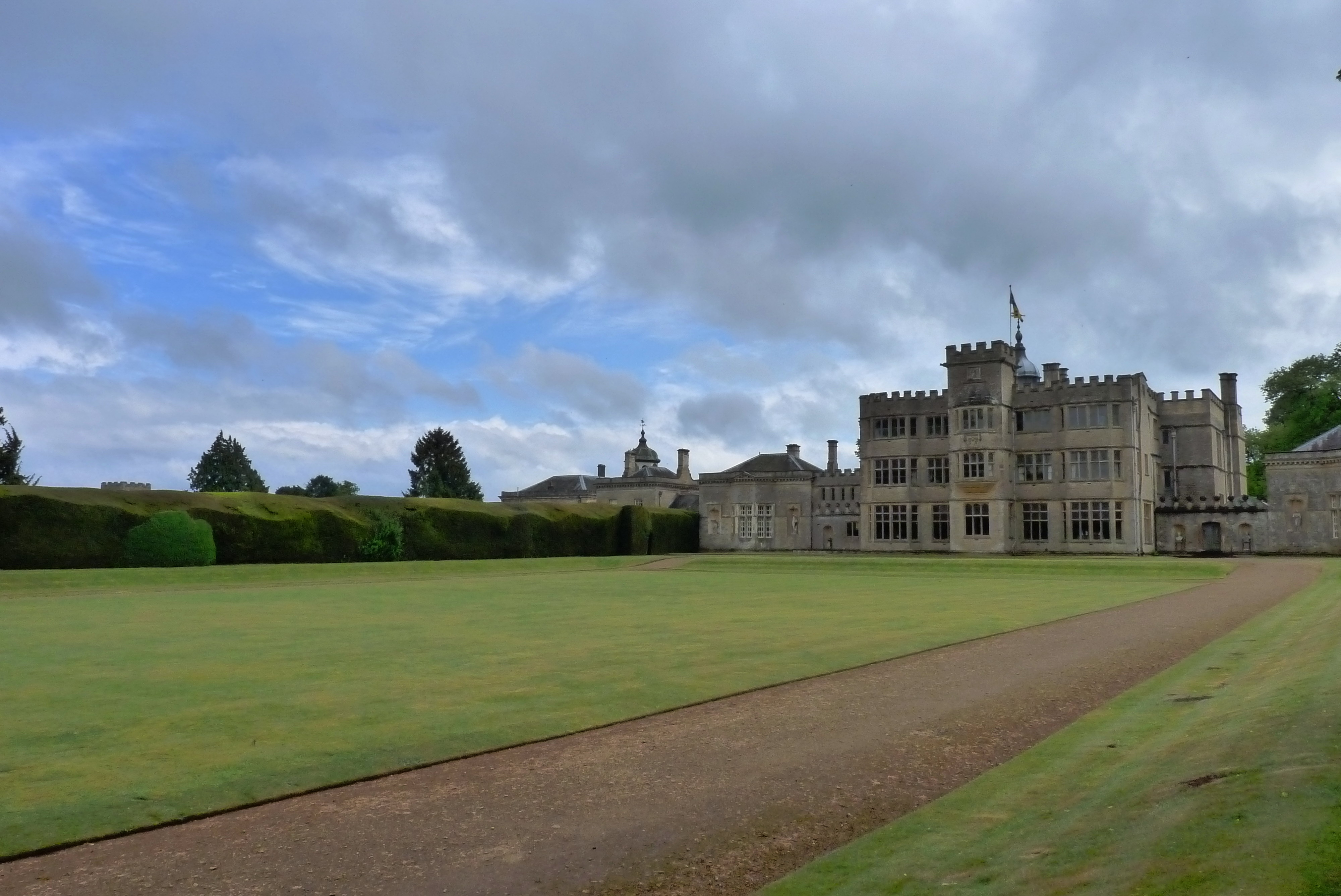 Rousham House in Oxfordshire